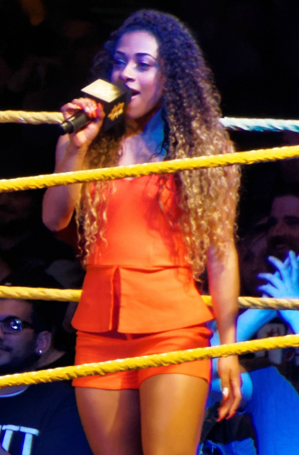 JoJo from Total Divas working as Ring announcer during an NXT Live event in March 2015.